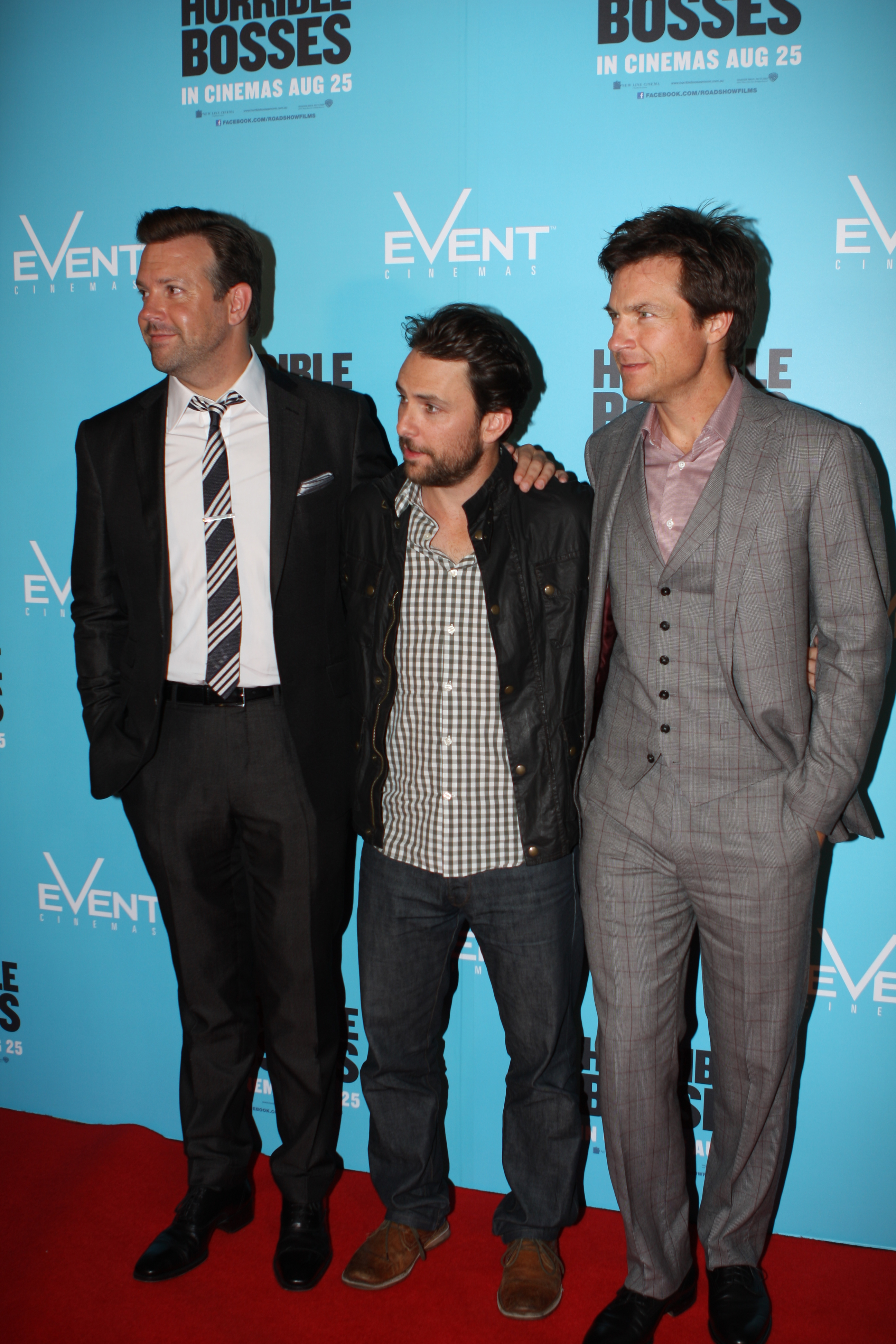 Jason Sudeikis Charlie Day Jason Bateman